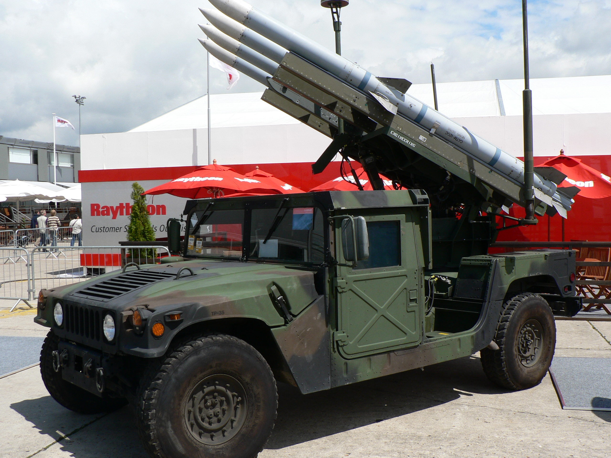 Humvee equipped with Raytheon surface-to-air missiles (CATM-120C) in display at Paris Air Show 2007